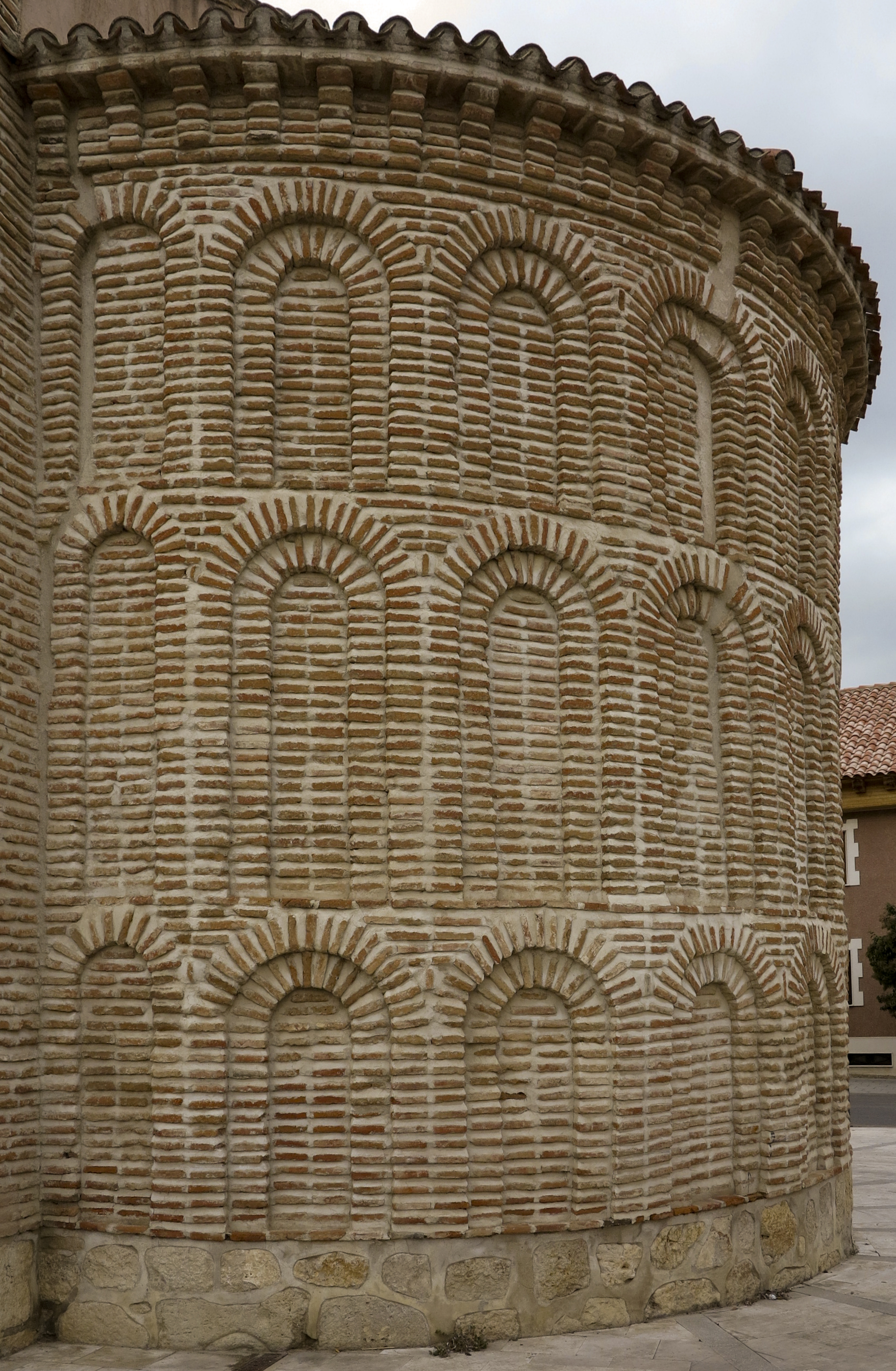 Camarma de Esteruelas. Spain. Iglesia San Pedro Apostól. Apse.